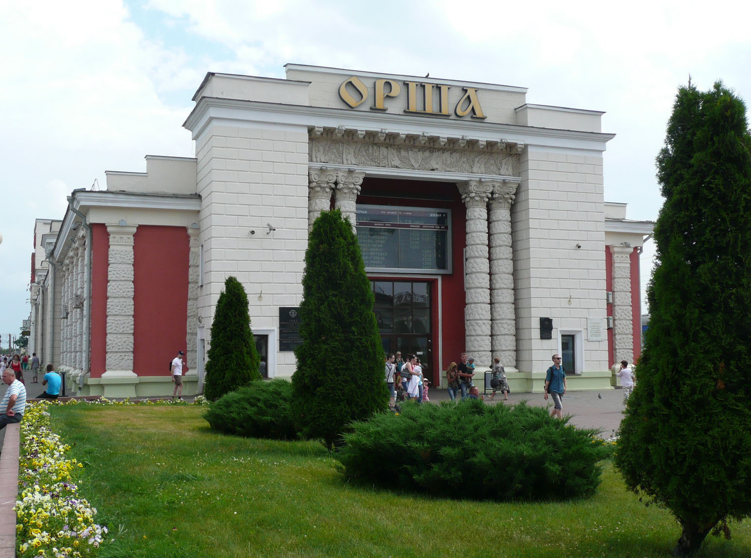 Orsha Railway Station